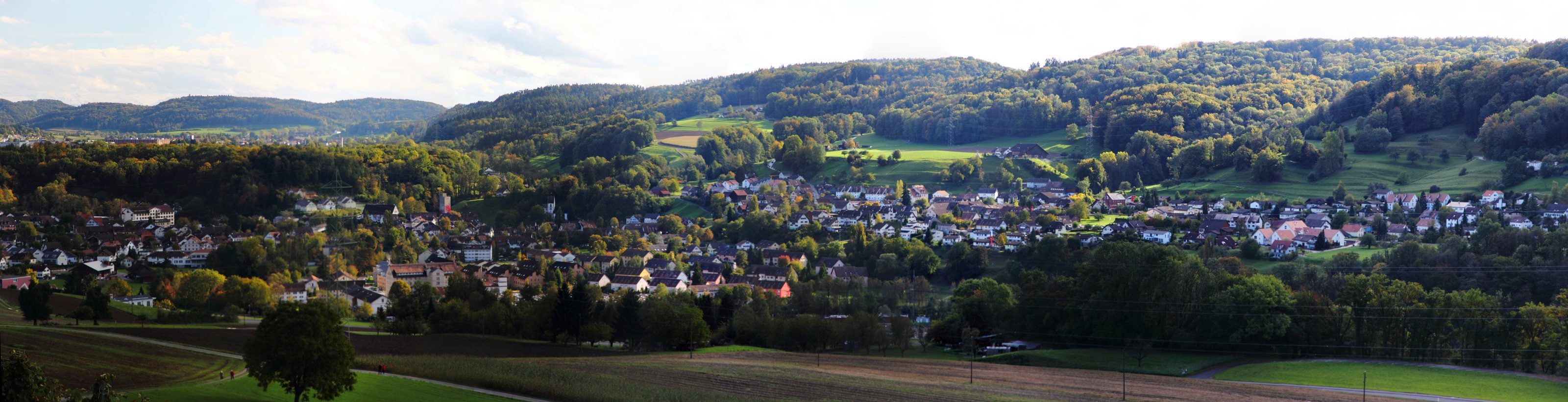 Panoramic view of Rorbas, on the Toss valley